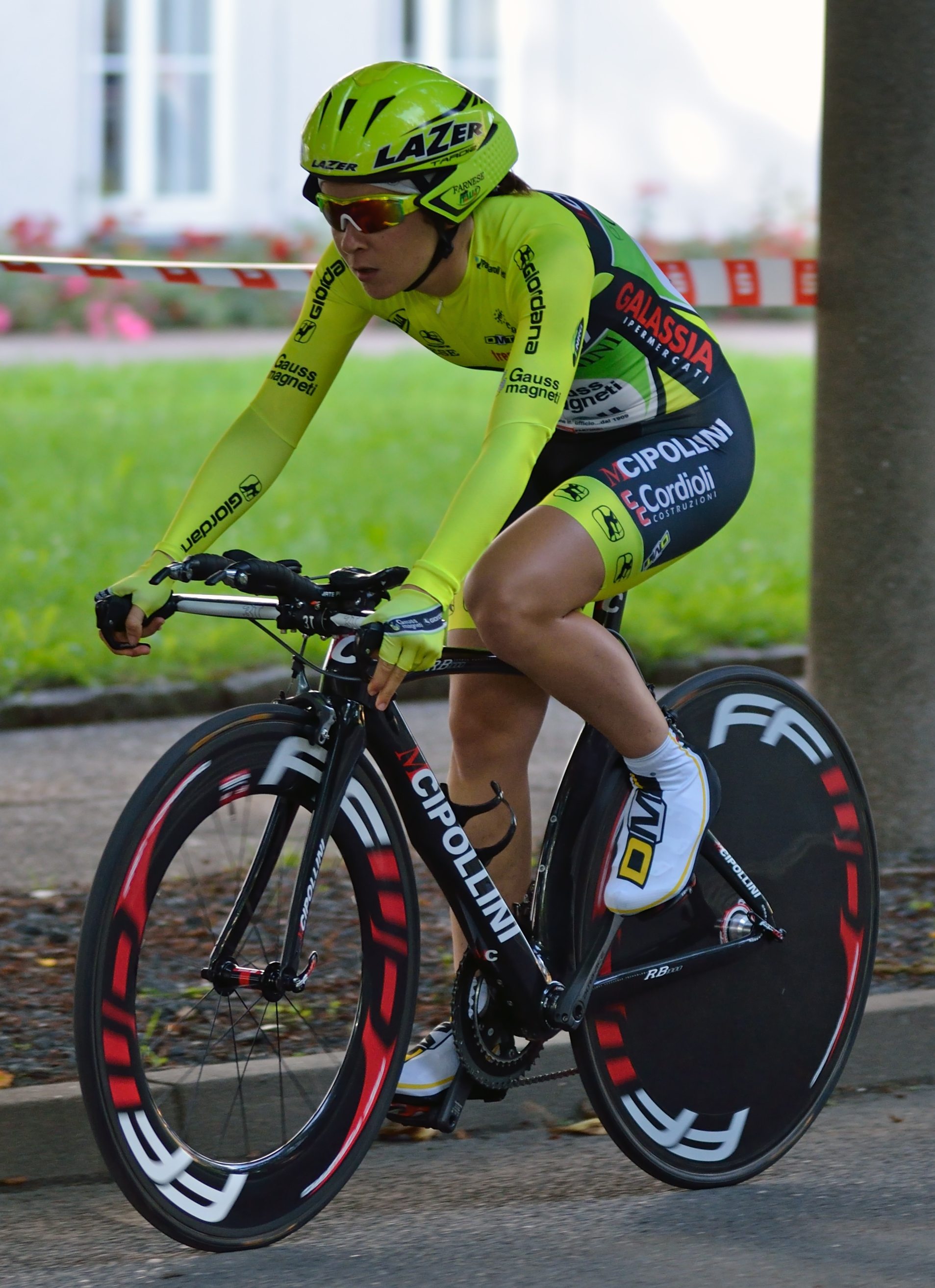 Valentina Carretta from the MCipollini Giambenini team during the Women's Tour of Thuringia 2012 in Zwickau, Germany.